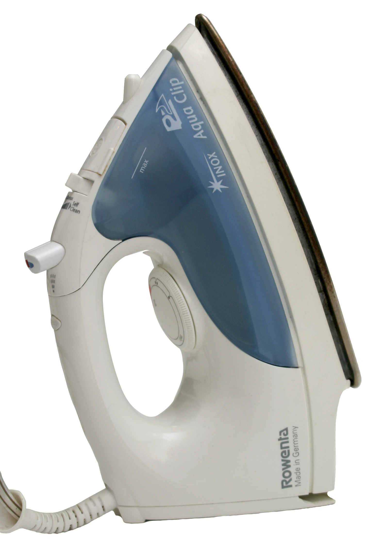 Iron_Rowenta